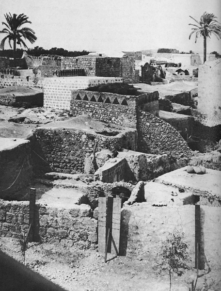 Lydda Old City, 1948. This work or image is now in the public domain because its term of copyright has expired in Israel. According to Israel's copyright statute from 2007 (translation), a work is released to the public domain on 1 January of the 71st year after the author's death (paragraph 38 of the 2007 statute) with the following exceptions: A photograph taken on 24 May 2008 or earlier — the old British Mandate act applies, i.e. on 1 January of the 51st year after the creation of the photograph (paragraph 78(i) of the 2007 statute, and paragraph 21 of the old British Mandate act). If the copyrights are owned by the State, not acquired from a private person, and there is no special agreement between the State and the author — on 1 January of the 51st year after the creation of the work (paragraphs 36 and 42 in the 2007 statute). See also category: PD Israel & British Mandate.